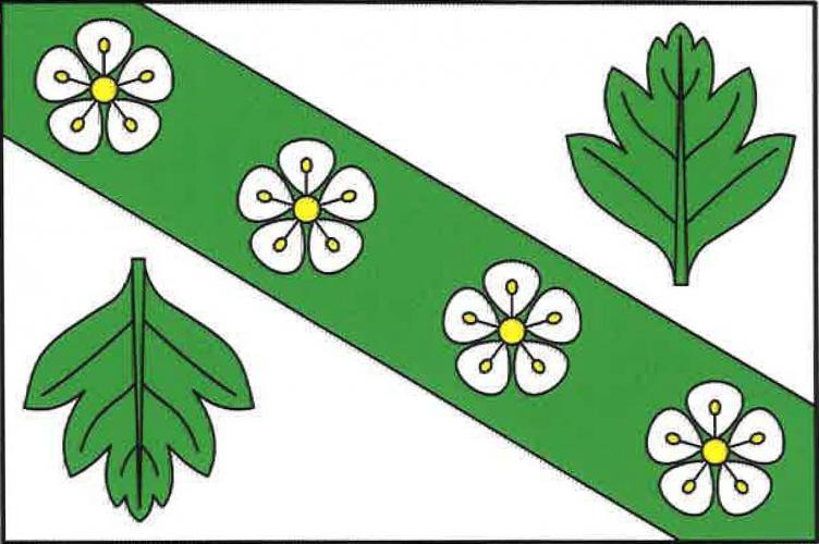 Municipal flag of Hlohovice village, Rokycany District, Czech Republic.